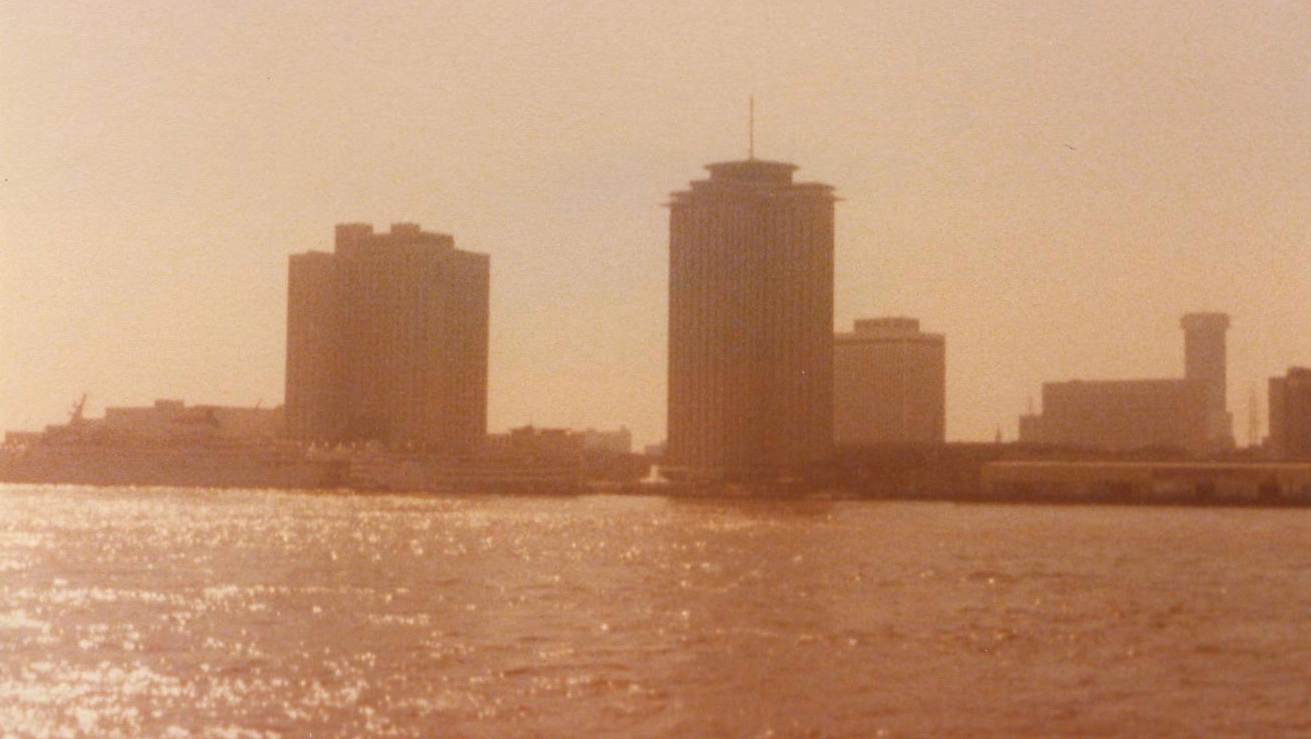 New Orleans: Snapshot view across the Mississippi River towards the foot of Canal Street from Algiers Point, late 1970s. Note the absense of the oil boom skyscrapers which were added to the Central Business District skyline in the 1980s. Hilton Riverside Hotel (first highrise at left) is visible, built 1977, so photo is no earlier than then. Other highrises visible (left to right) are International Trade Mart (later World Trade Center), Lykes Building, and Plaza Tower. The Iberville Wharf is still intact just down river from Canal Street.